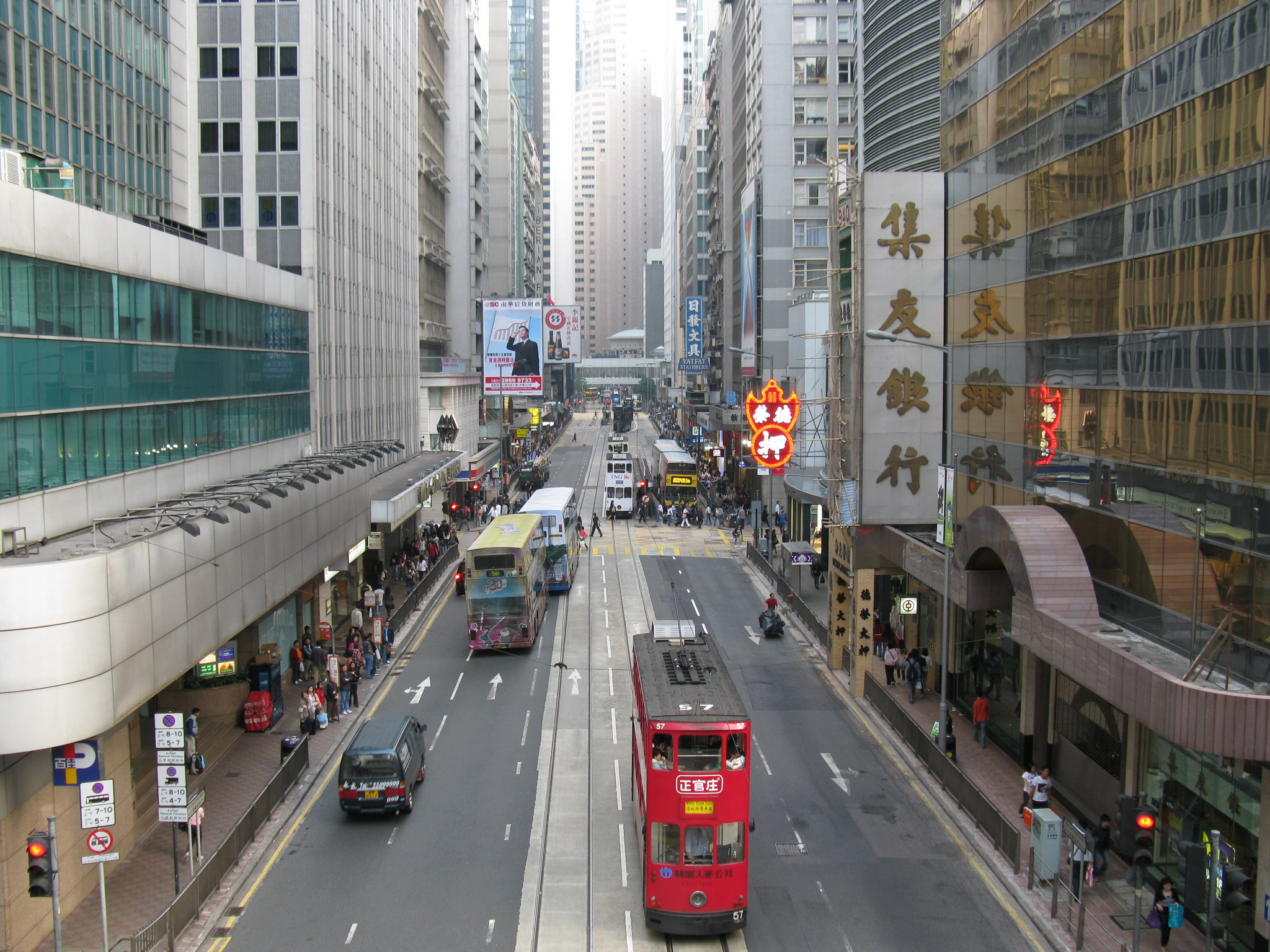 Des Voeux Road Central, view towards HSBC Main Building